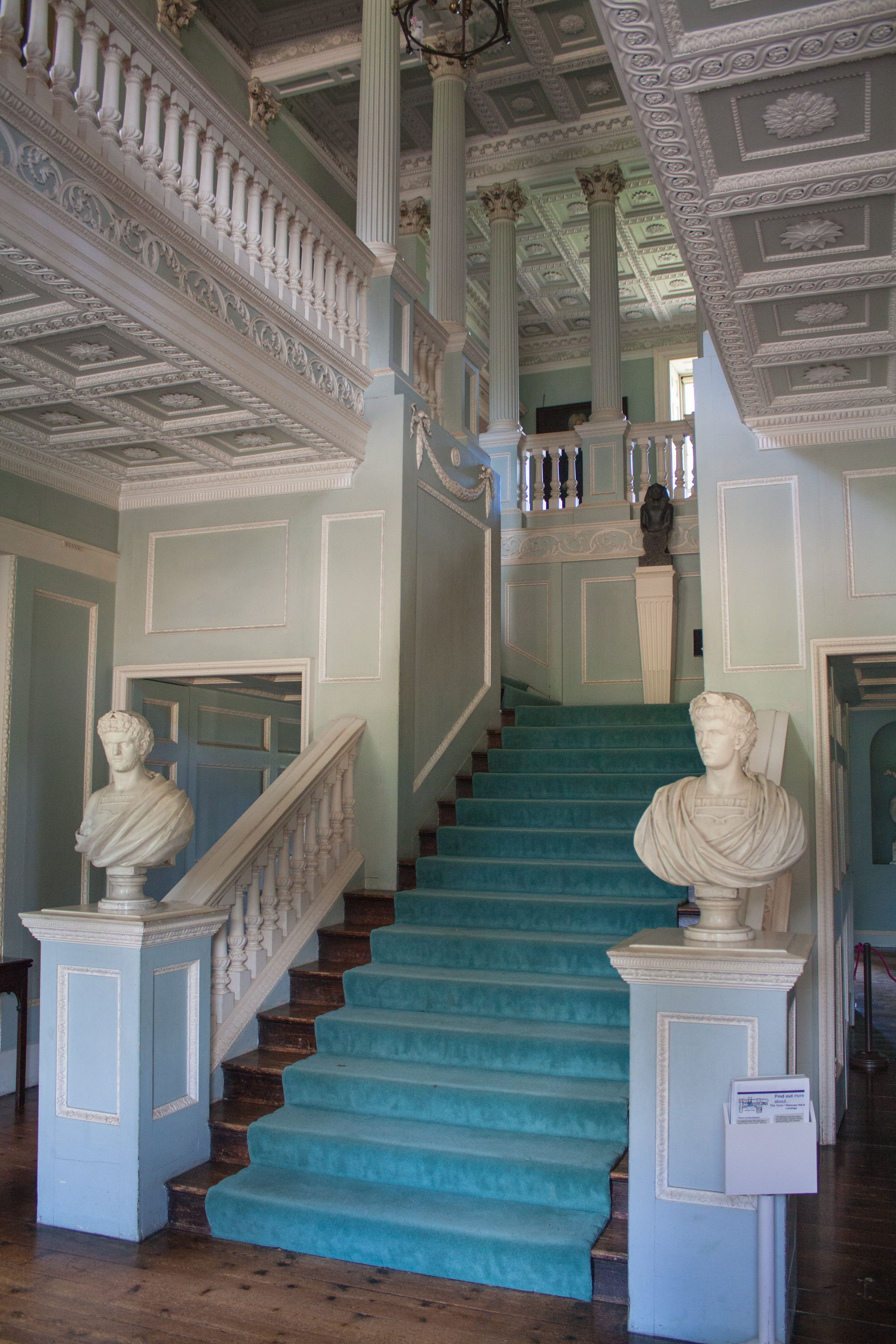 The Vyne House Main Staircase